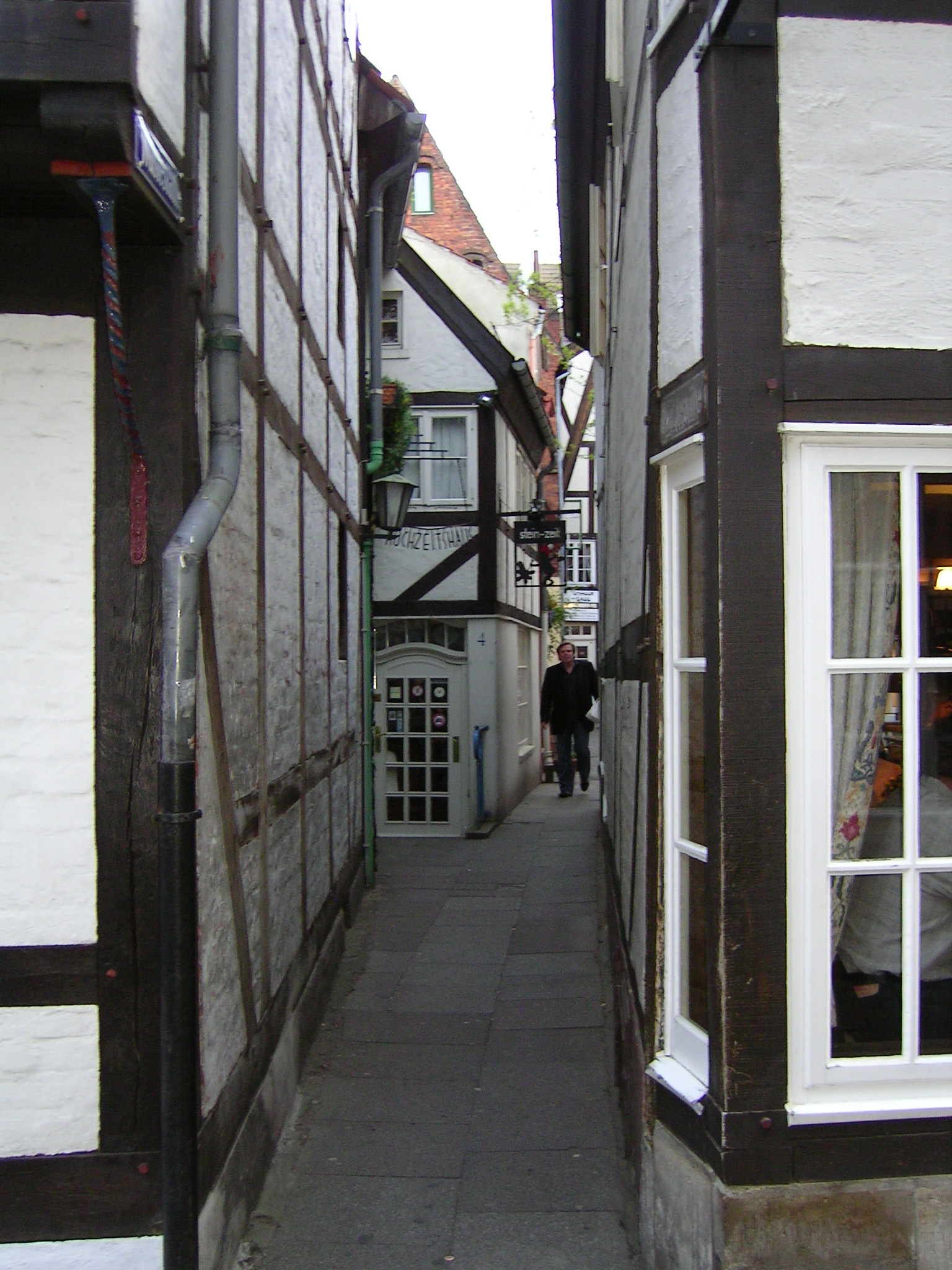 Houses from the 15th and 16th centuries along the narrow alleys in Bremen’s oldest surviving quarter